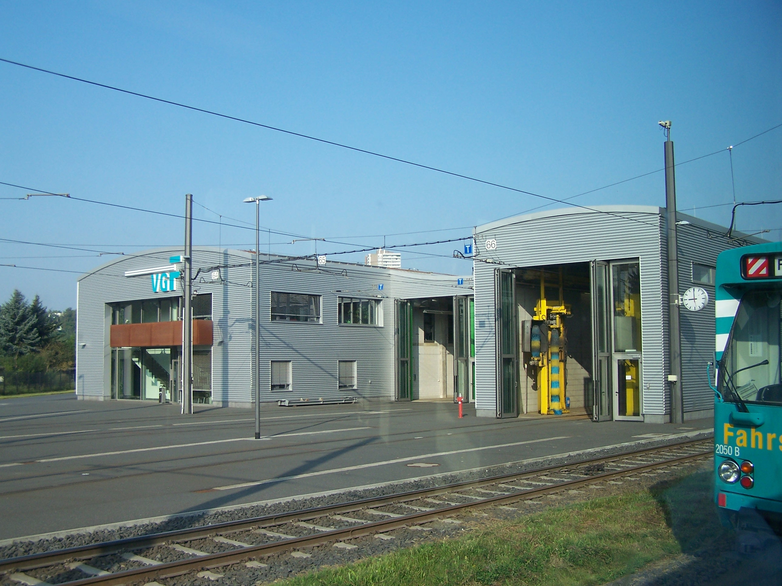 driving through the Betriebshof Ost in Frankfurt am Main